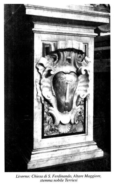 Coat Terriesi in the Church of San Ferdinando - Livorno